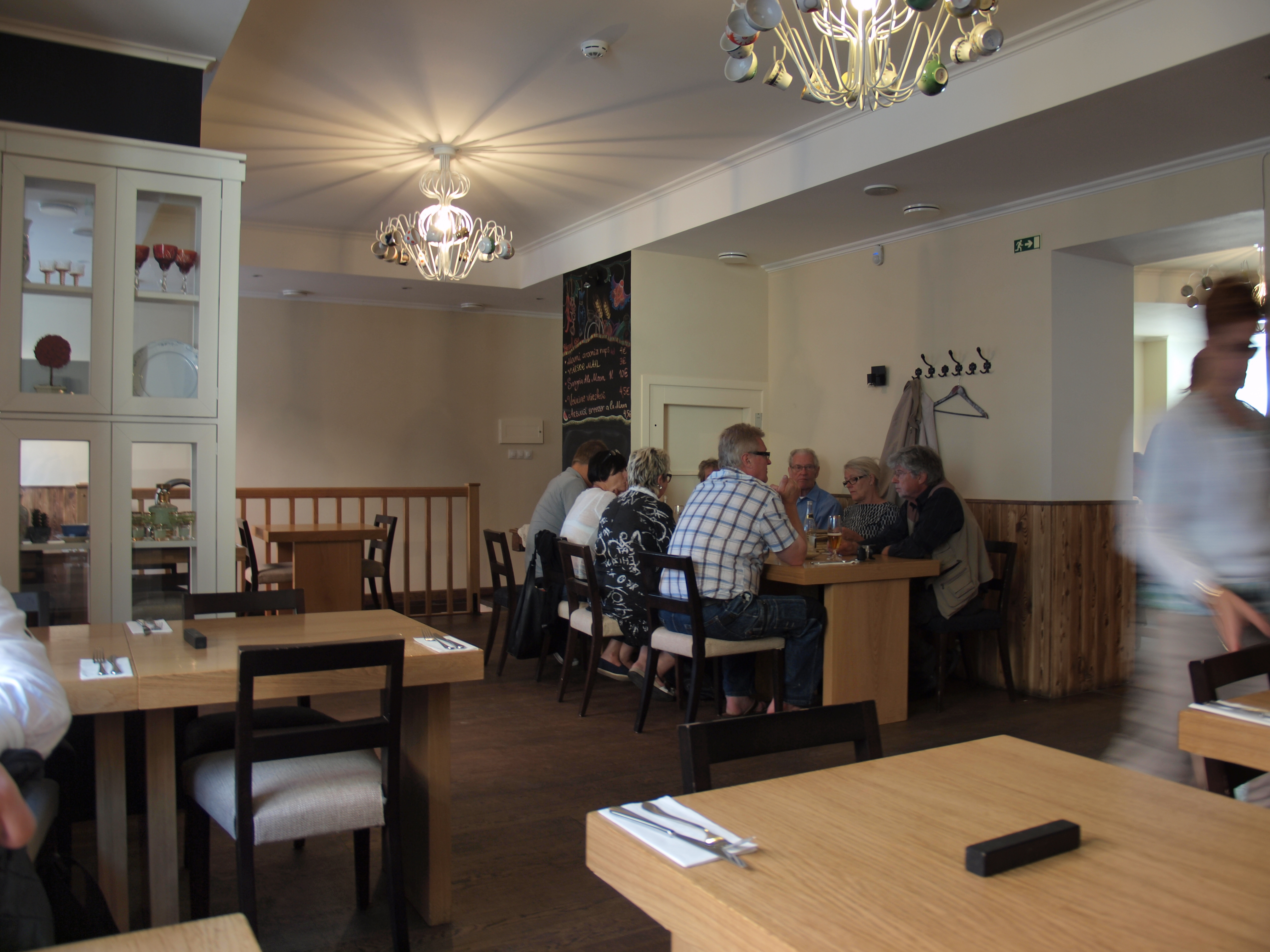 Inside view of restaurant Kohvik Moon, located at Võrgu 3, Tallinn, Estonia. The restaurant was voted best restaurant in Tallinn in 2010.